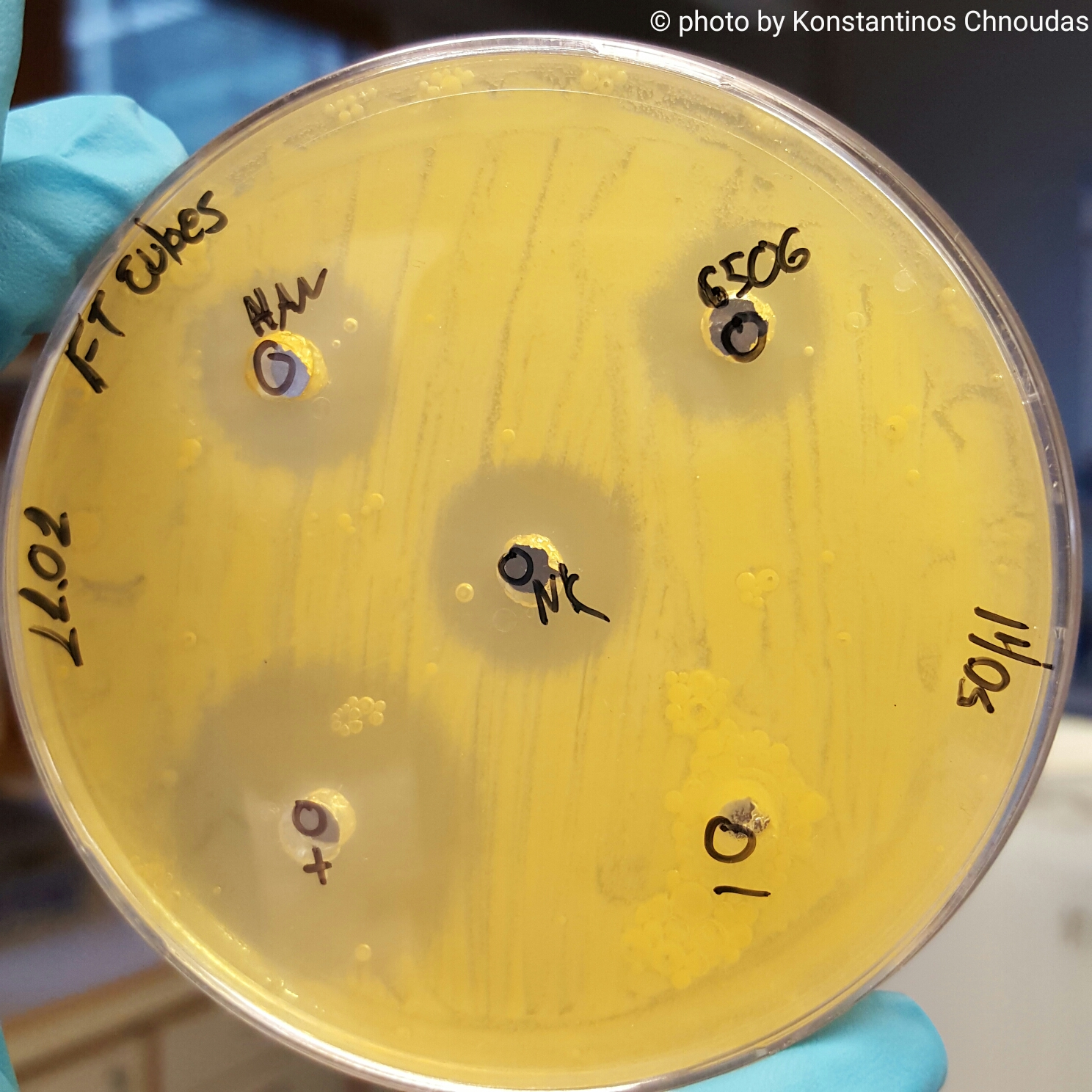 Inhibition zones from Cyanobacteria extracts against the bacterium strain Micrococcus luteus. © Photo by Konstantinos Chnoudas